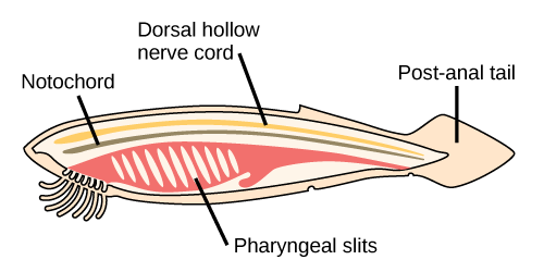 Common features of chordates